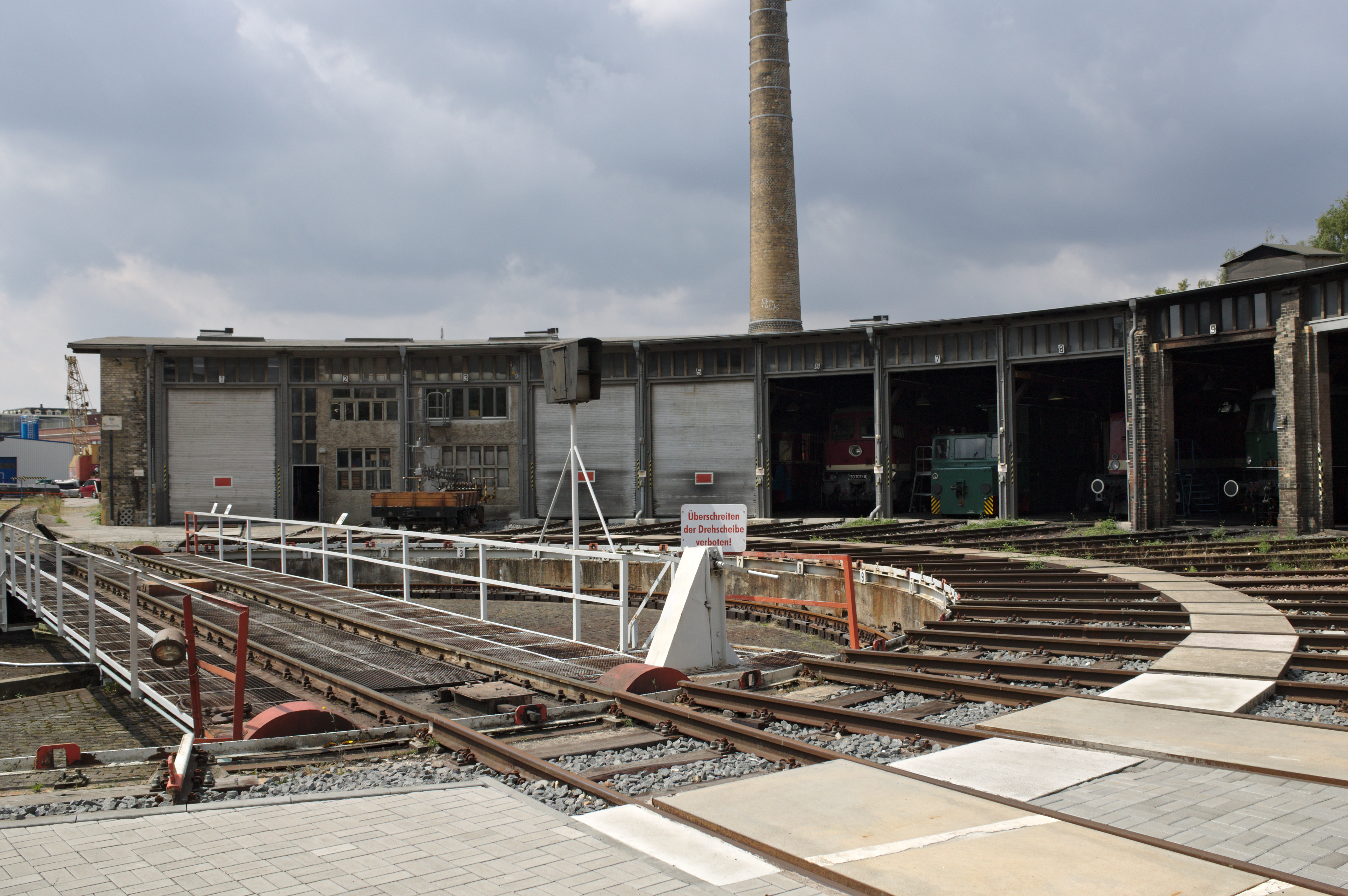 DB_Museum_Halle_(Saale) in 2019